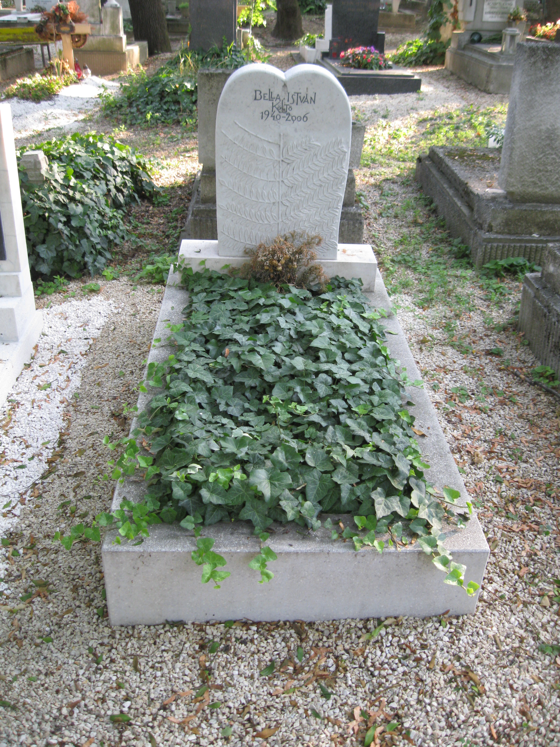 Tomb of István Bella in Farkasréti Cemetery, Budapest District XII